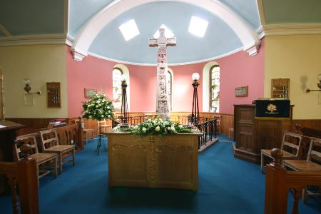 The Ruthwell Cross, Ruthwell, Dumfries & Galloway, Scotland